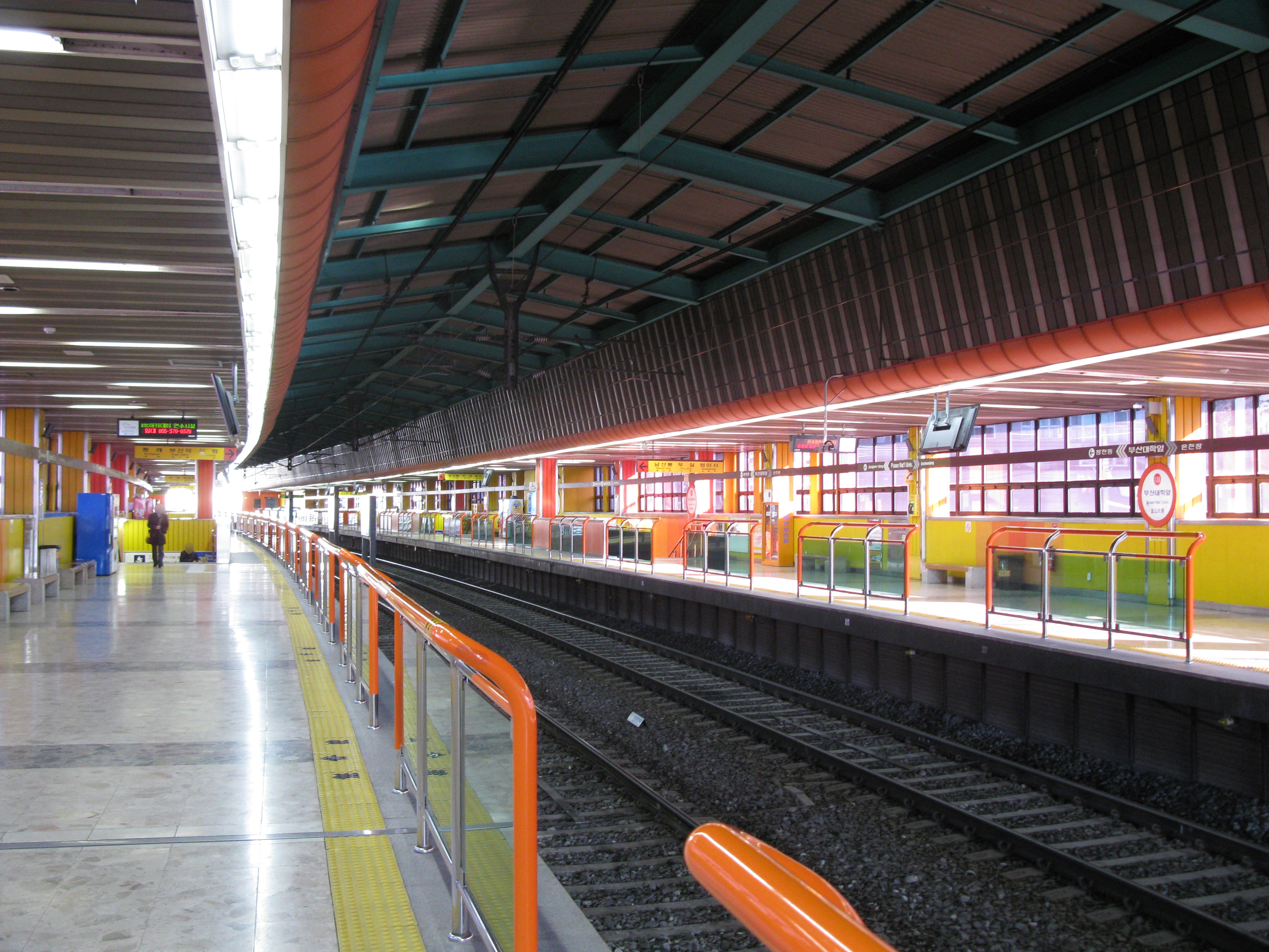 Pusan National University Station platform (Busan Subway Line 1)